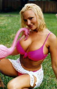 Stacy Valentine at the 1998 NightMoves Awards show